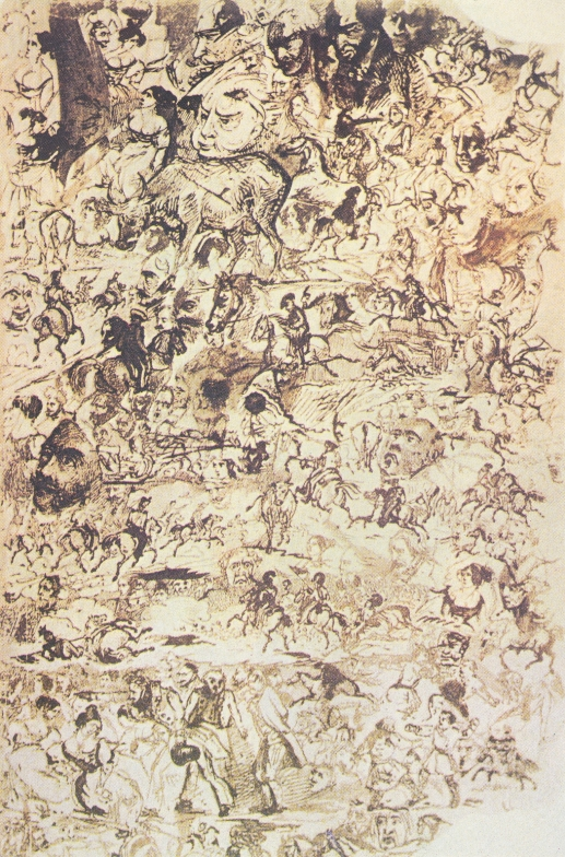 Picture on the "Vadim"'s Manuscript